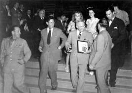 Photo of President Truman departing RLDS Auditorium (North Entrance) on June 27, 1945, in Independence, Missouri. The North Entrance of the Auditorium overlooks the historic 'Mormon Temple Lot'